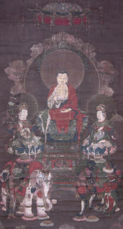 Shaka Triad, from a Shaka Triad with Eighteen Arhats triptych, Ichirenji, Kofu, Yamanashi, Japan